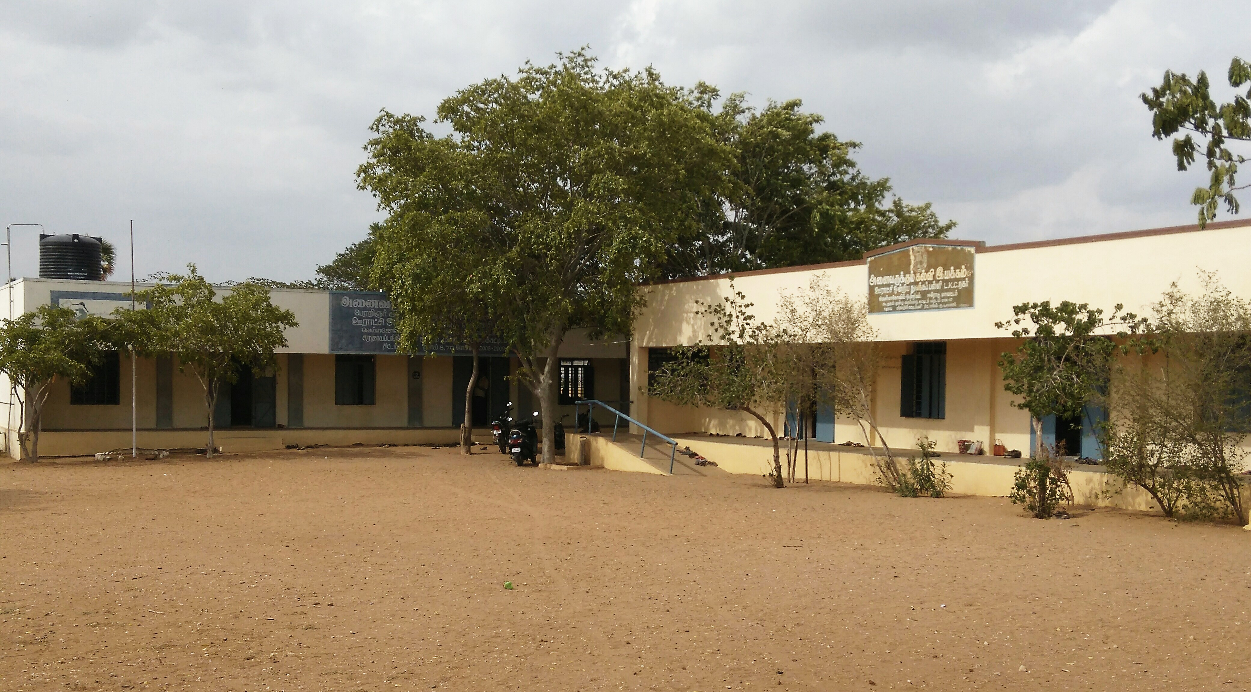 ஊராட்சி ஒன்றிய நடுநிலைப்பள்ளி, எல்.கே.சி.நகர்